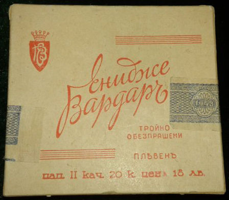 Enidzhe Vardar ciggaretes